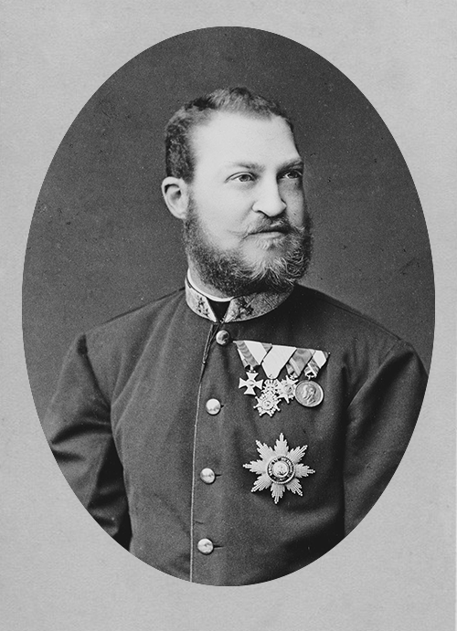 Photography of Prince Ernst August of Hannover